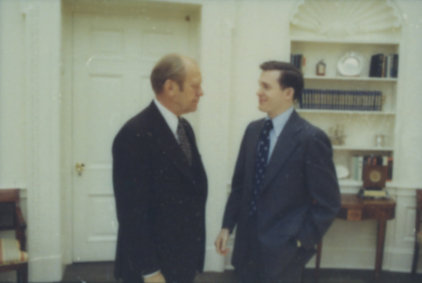 The photo contact sheet, identified as B2469 by the White House Photographic Office (WHPO), is housed at the Gerald R. Ford Presidential Library, a branch of the National Archives and Records Administration (NARA). This file is a 200 dpi photo contact sheet having images from roll of film B2469 of the August 9, 1974 - January 20, 1977 Gerald R. Ford White House Photographic Office Series A0001-A9999 and B0001-B2886 photographs. The date on the photo contact sheet is the date the roll of film was processed, not necessarily the date the photographs were taken. See table below for additional details.